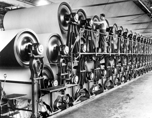 Local call number: c006493 Title: [A worker overseeing a papermaking machine at a paper mill near Pensacola] Date: Taken circa 1950 Physical descrip: 1 photoprint : b&w ; 8 x 10 in. Series Title: (Commerce Collection.) Repository: State Library and Archives of Florida, 500 S. Bronough St., Tallahassee, FL 32399-0250 USA. Contact: 850-245-6700. Persistent URL: [1]